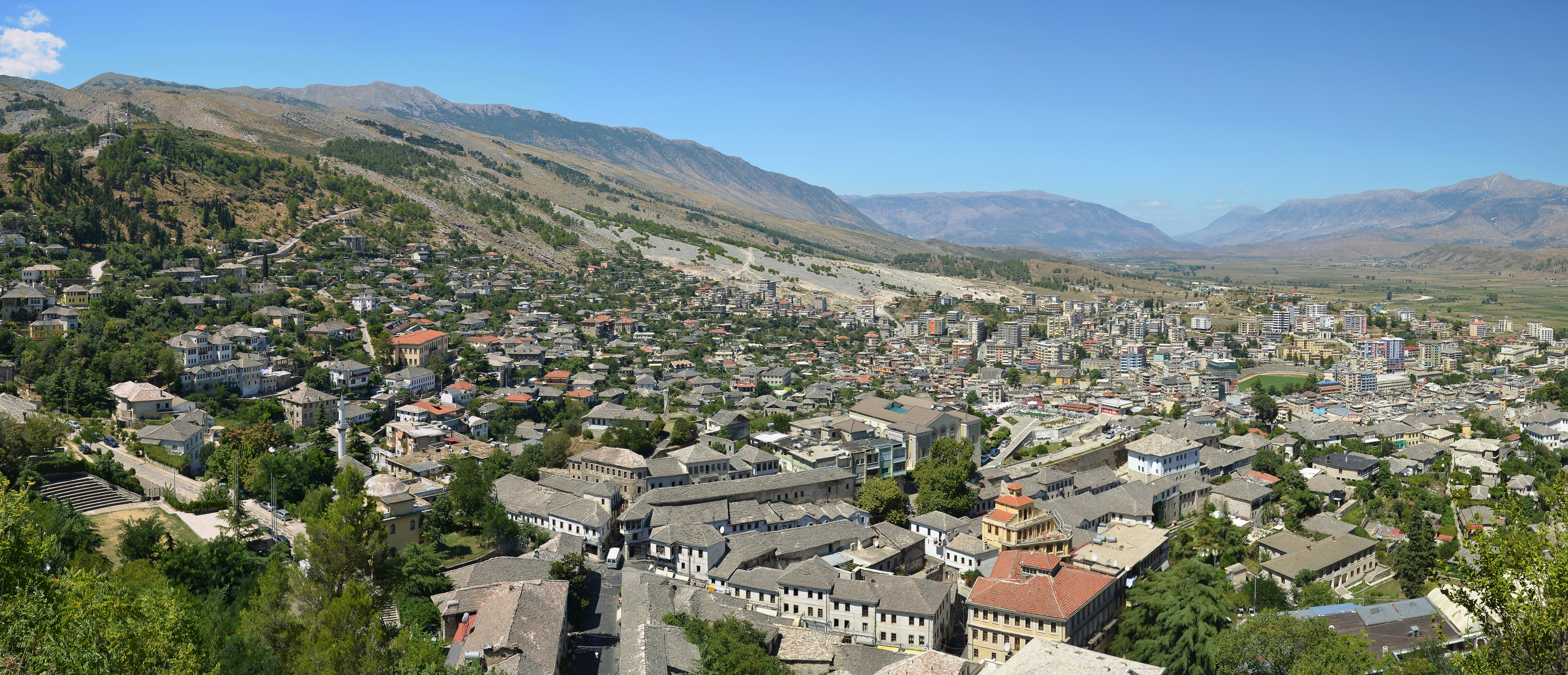 Gjirokastёr, Albania